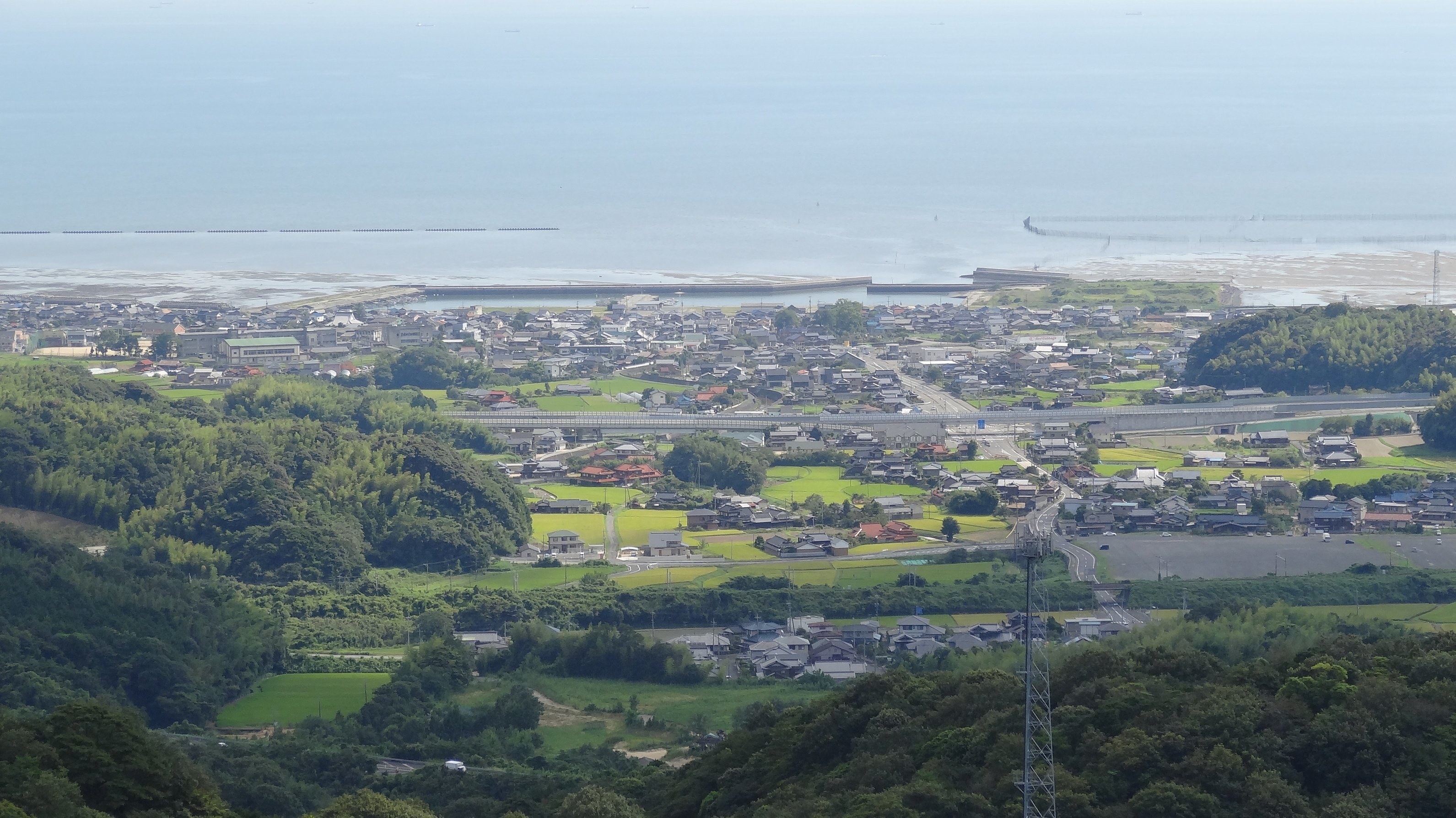 Habu District, Sanyo-Onoda City, Yamaguchi Prefecture, Japan.